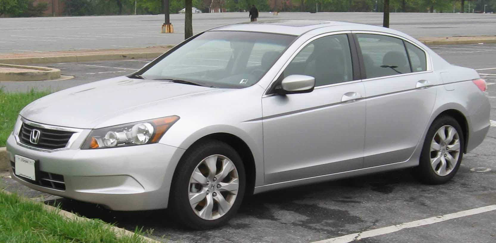 2008 Honda Accord photographed in College Park, Maryland, USA.